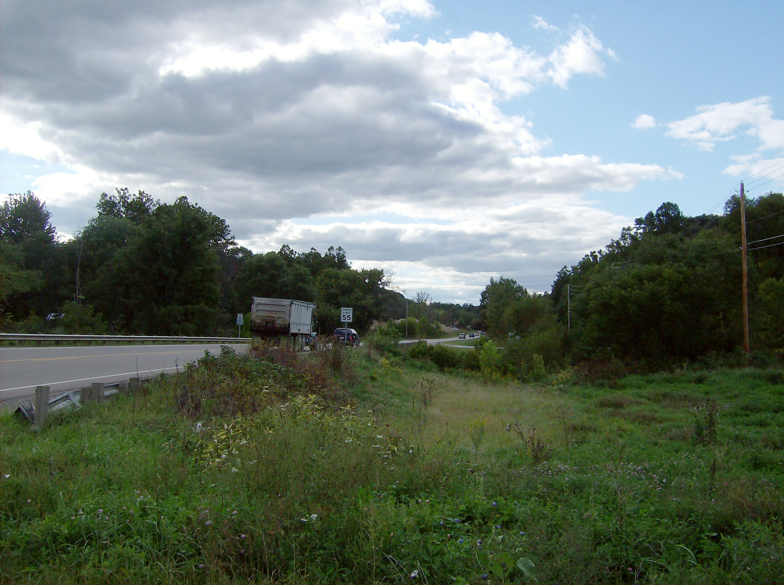 View westward along State Route 154 in northwestern Elkrun Township, Columbiana County, Ohio, United States.